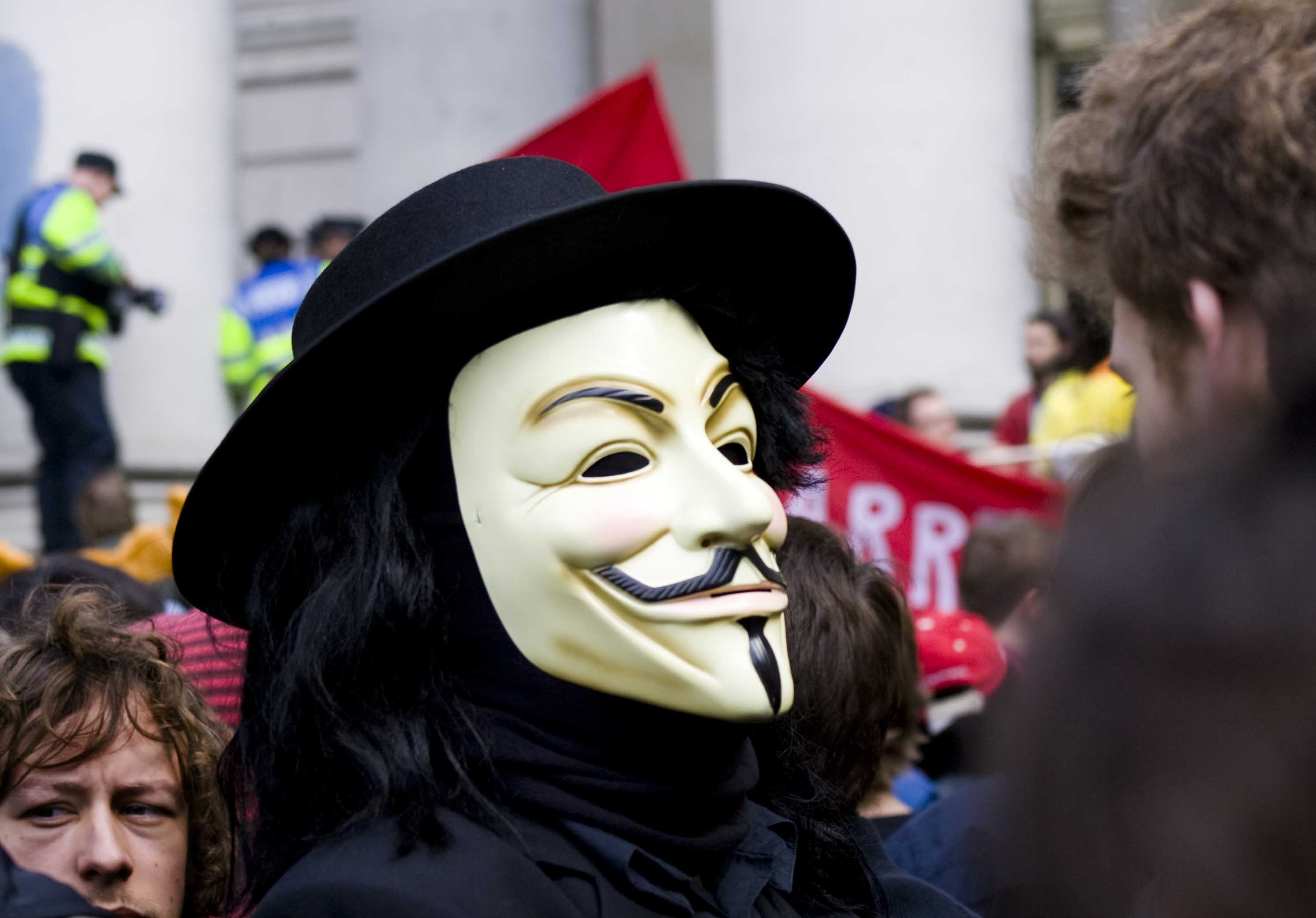 A protestor dressed as V from V for Vendetta at the G20 Meltdown protest in London on 1 April 2009